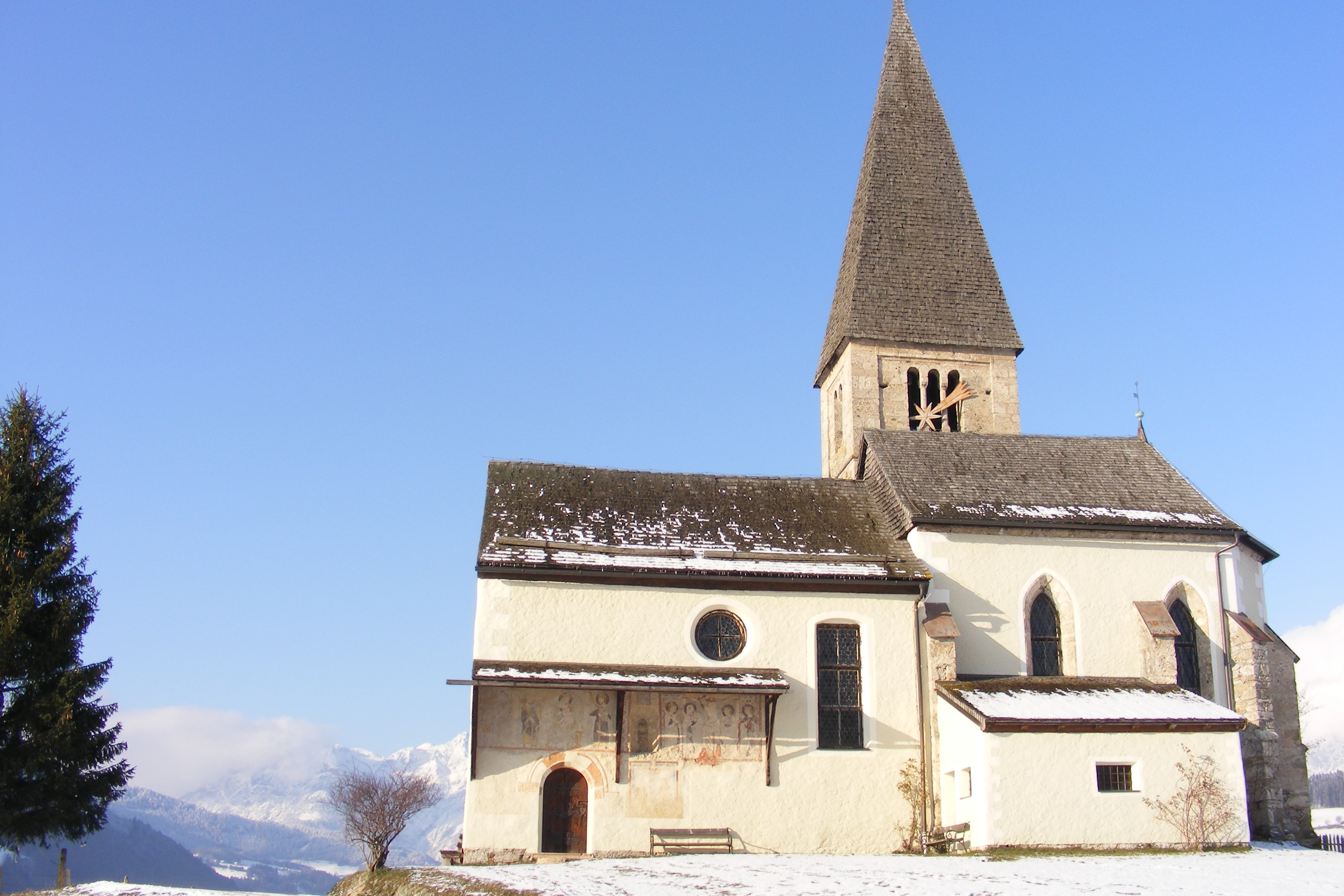 "Buchbergkircherl" church on the Buchberg, Bischofshofen, near Salzburg, Austria